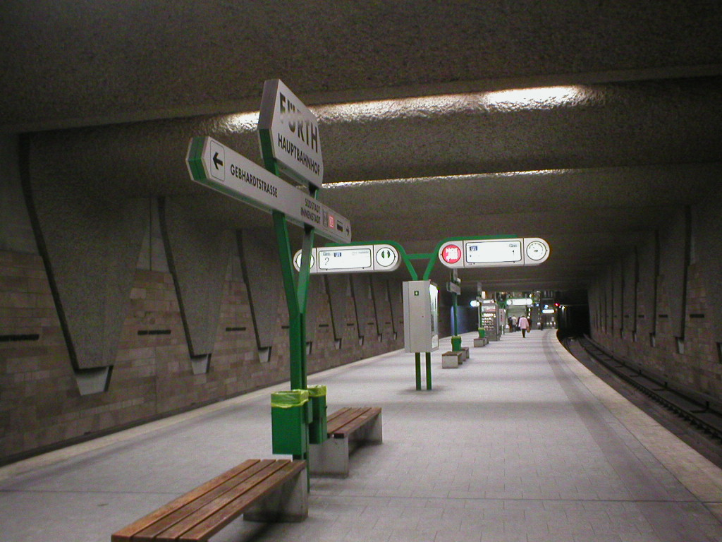 Nurembergs U-Bahn line U1 isn't only in Nuremberg himself. You can visit underground stations in the neighbour city Fürth too. Here ist Fürth Hauptbahnhof (Fürth main station)